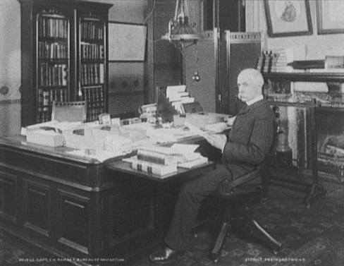 Captain Francis Munroe Ramsay, Bureau of Navigation